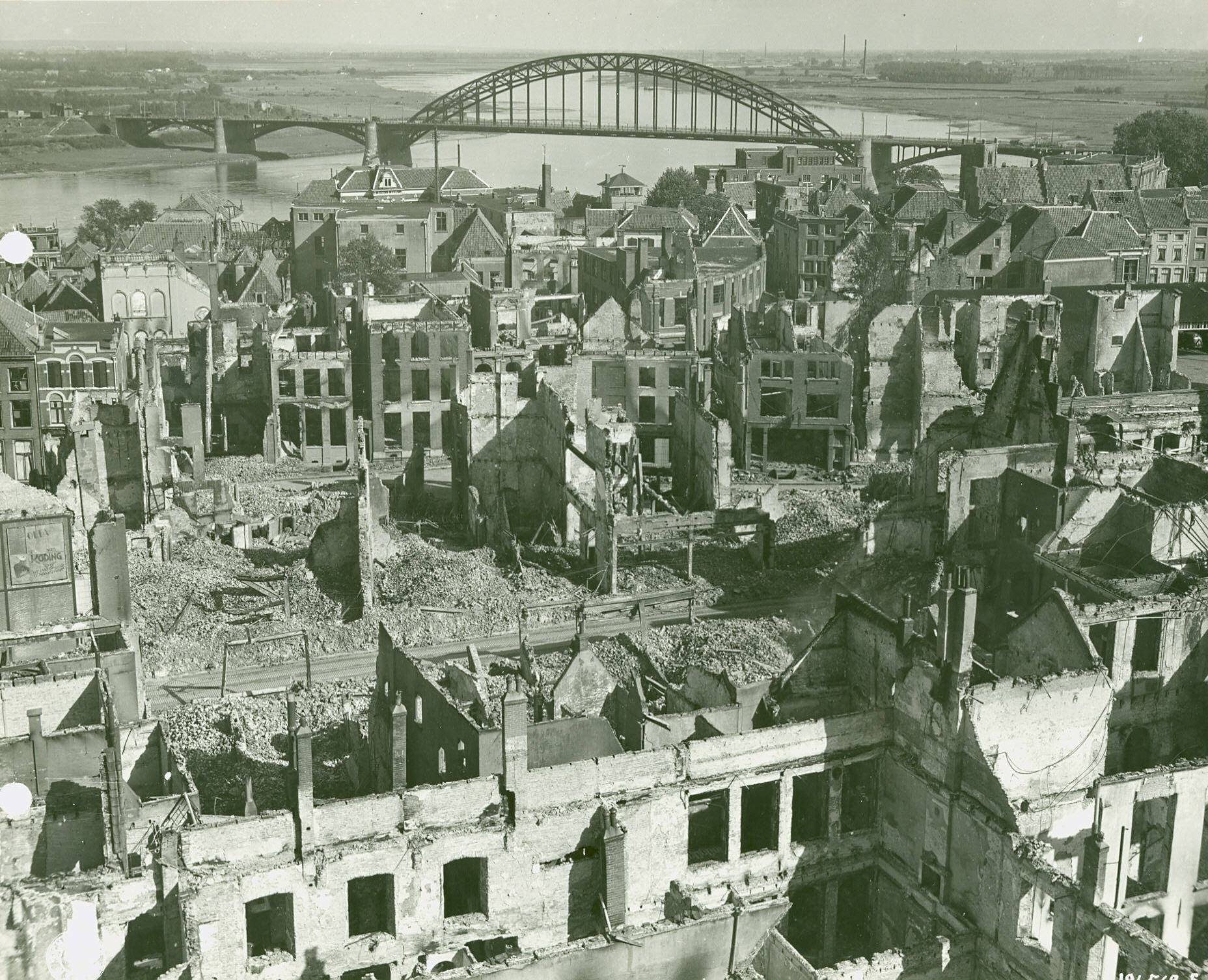 Panoramic view of the city of Nijmegen, Holland with the Nijmegen Bridge in the background. The city was hit by Allied and German bombardment and artillery shelling.